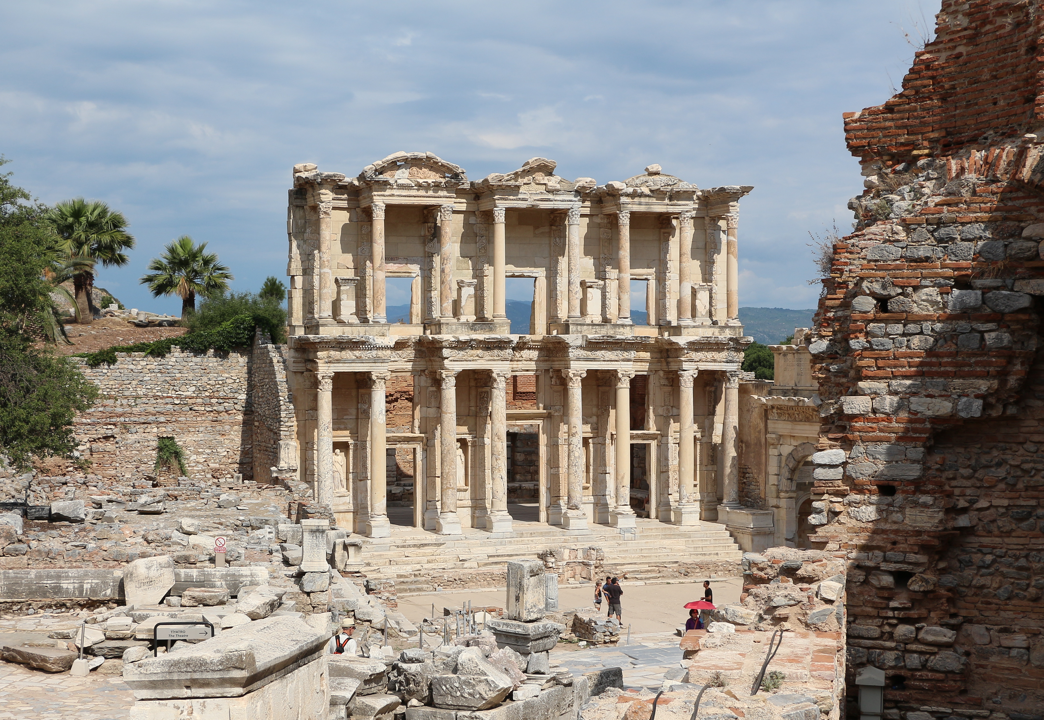 Celsus Library in Ephesus, Turkey